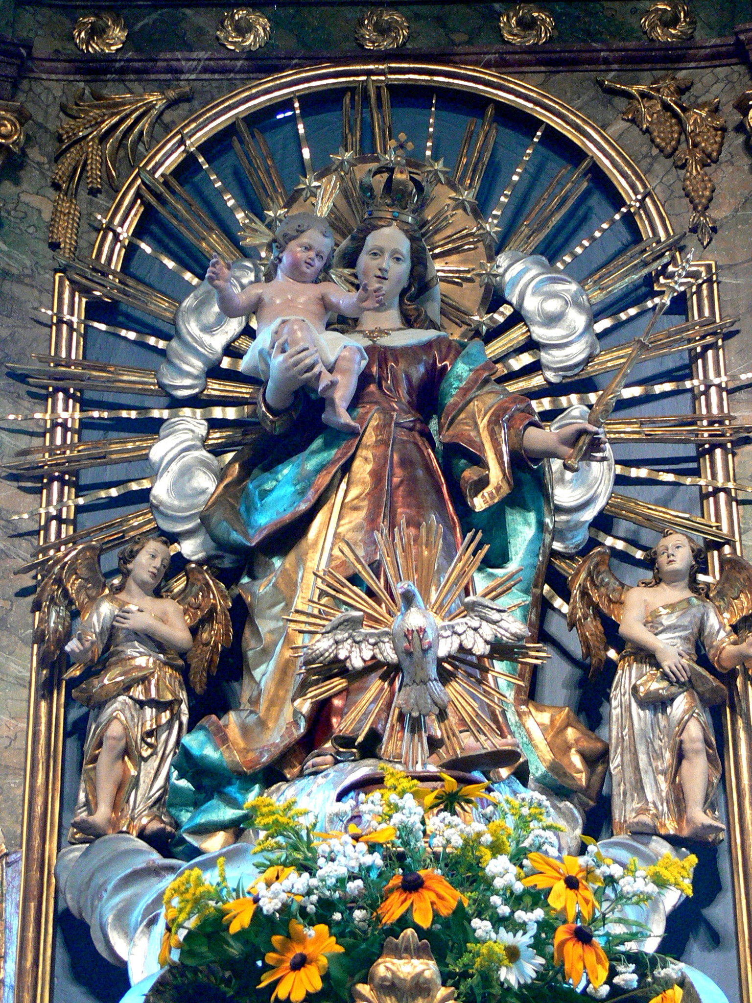 Sankt Martin im Tennengebirge ( Salzburg ). Saint Martin parish church: High altar ( 1732 ) - Madonna.